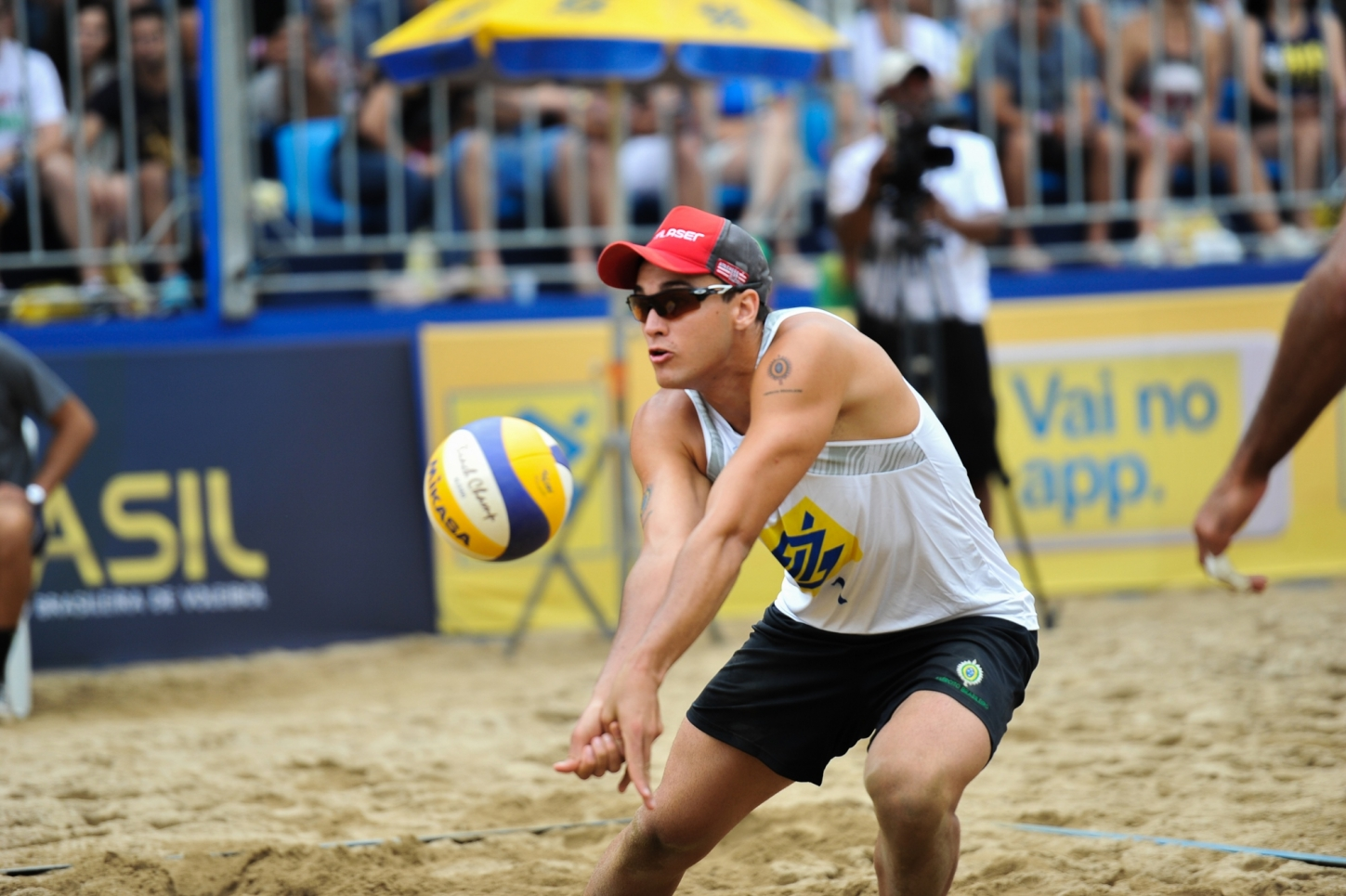 George Wanderley na defesa